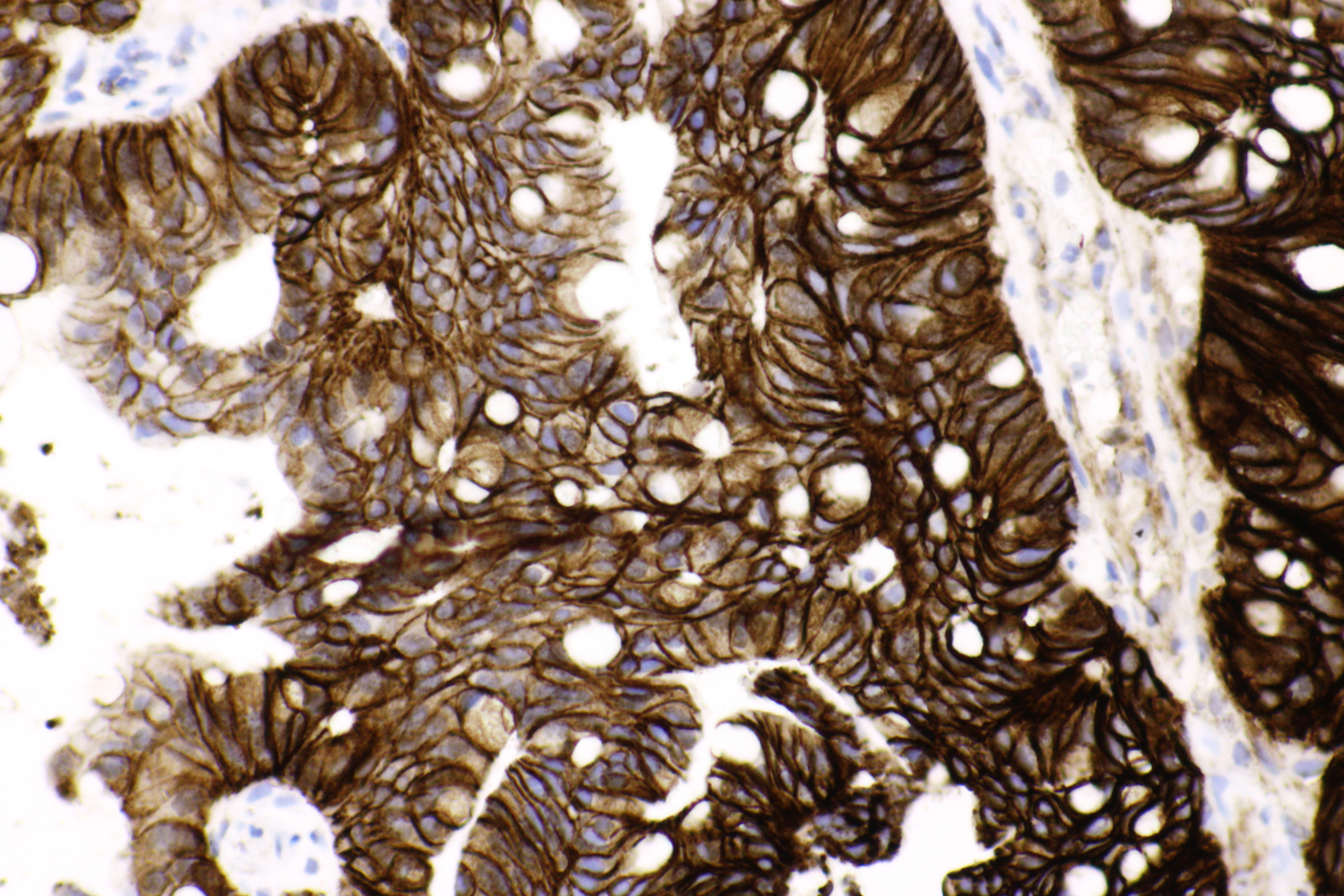 Micrograph showing adenocarcinoma of the urinary bladder compatible with a bladder primary. H&E stain or Beta-catenin immunostain. Transurethral biopsy. The differential diagnosis includes: Primary adenocarcinoma of the urinary bladder. Urachal adenocarcinoma. Urothelial carcinoma with glandular component - where the conventional urothelial carcinoma is not sampled. Metastatic adenocarcinoma (of the colorectum) is essentially excluded by the lack of nuclear beta-catenin staining. Related images AUB - low mag. AUB - intermed. mag. AUB - high mag. AUB - beta-catenin - low mag. AUB - beta-catenin - intermed. mag. AUB - beta-catenin - high mag. AUB - beta-catenin - very high mag.